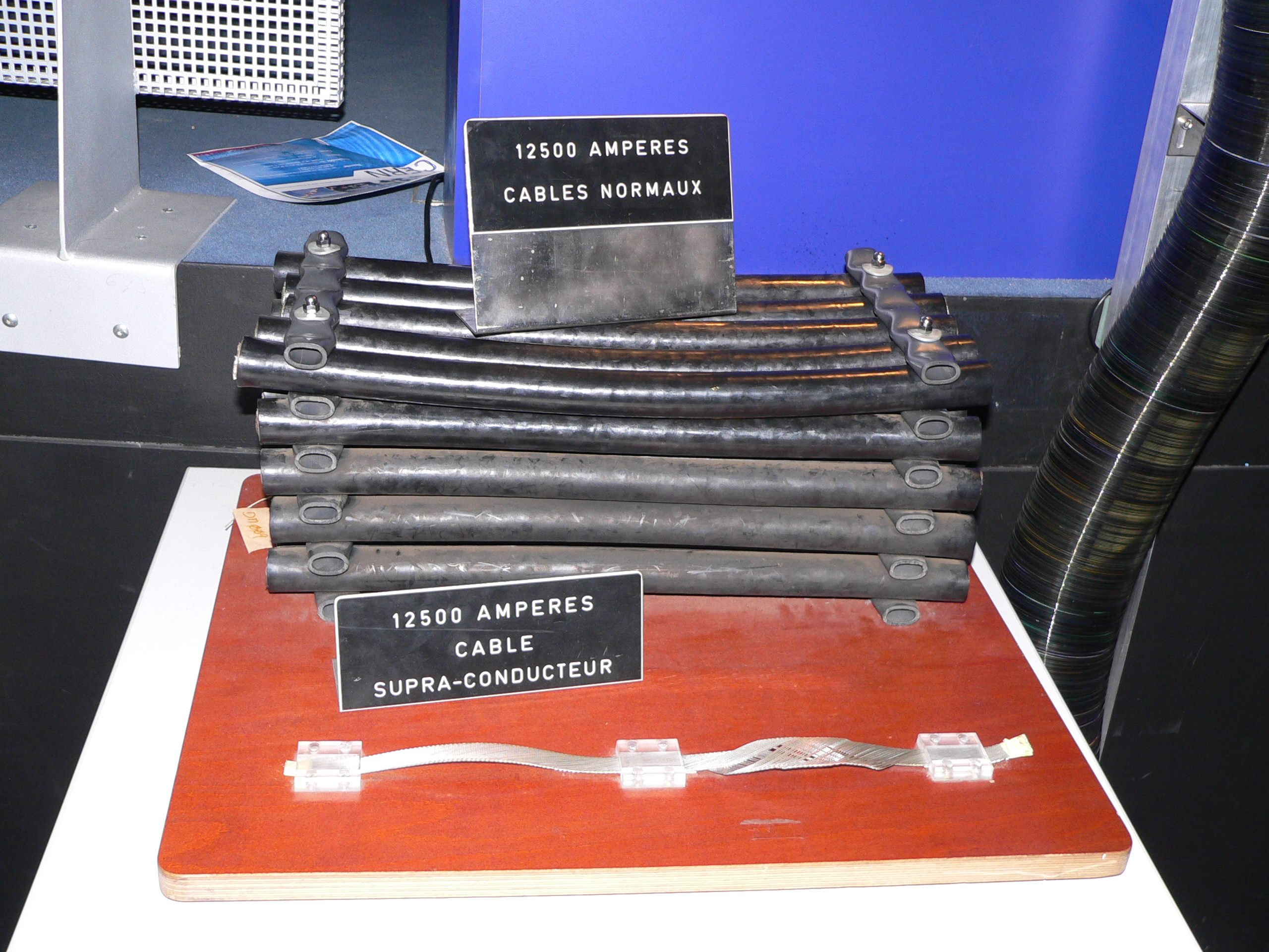 Regular and superconducting cables for 12,500 amperes used at LEP (top) and Large Hadron Collider (bottom) respectively. "Microcosme" exposition at the CERN.